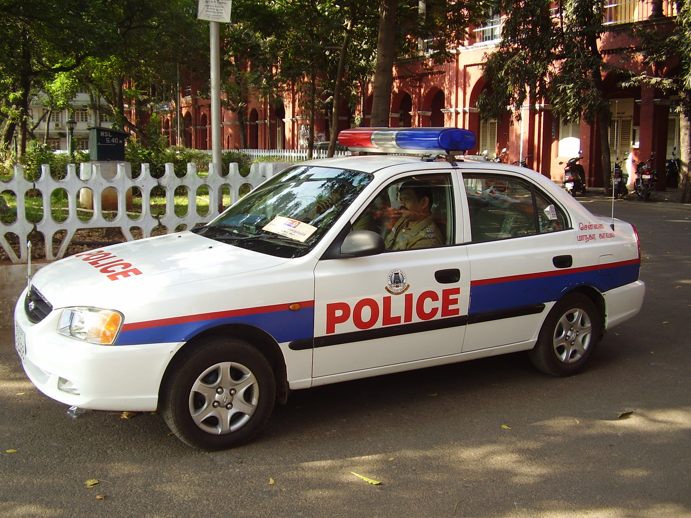 Greater Chennai Police, Patrol car, 2006, with diesel engine (cRdi).